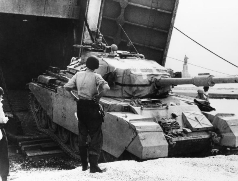 A British Centurion tank of the 6th Royal Tank Regiment disembarks from the tank landing ship HMS Puncher (L3036) at Port Said. In the background can be seen the De Lesseps statue which stood at the entrance to the Suez Canal.